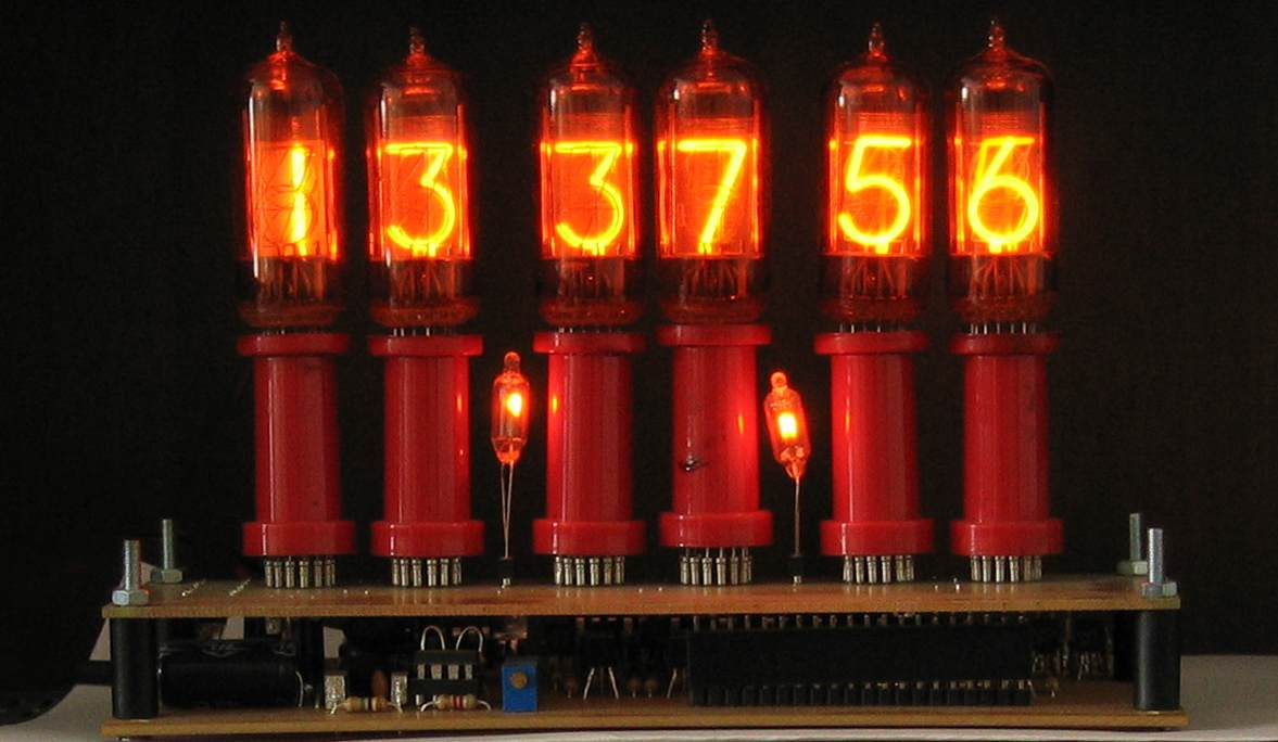 Cropped from PD image Image:Anzeigen(Displays).jpg.